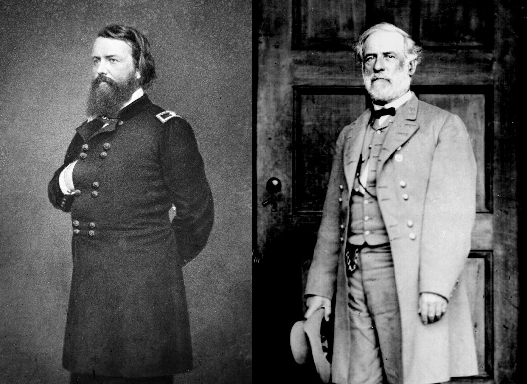 Original composition by Hal Jespersen, created in Photoshop by processing portions of two public domain images from the Library of Congress (public domain because the photographers died over 100 years ago): (John Pope) and (Robert E. Lee). Hal Jespersen 21:31, 5 September 2007 (UTC)